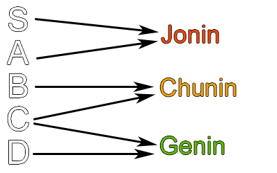 The ninja ranks and the missions assigned from the manga/anime Naruto.